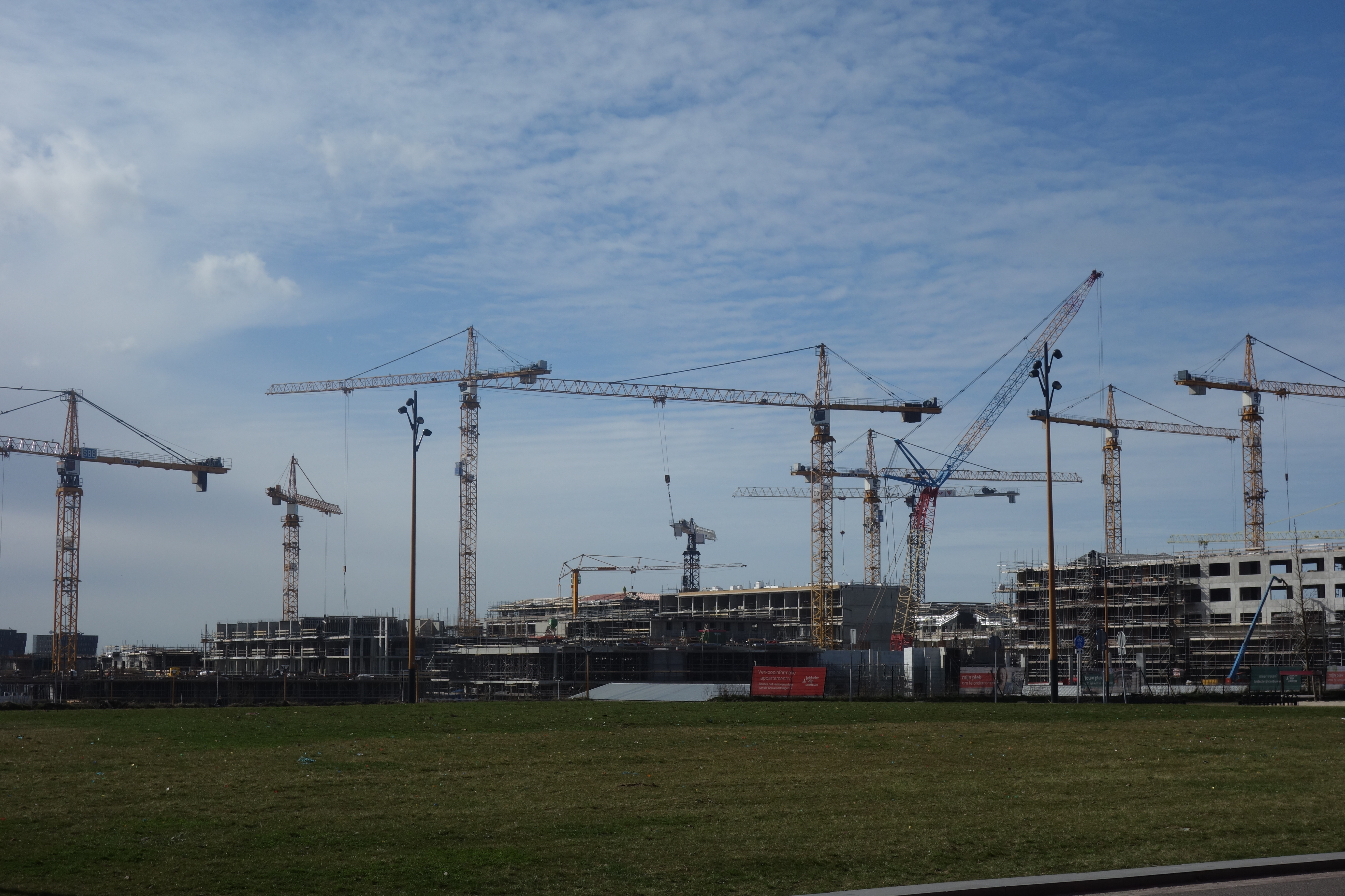 Tower cranes in Leidsche Rijn, Utrecht (the Netherlands)